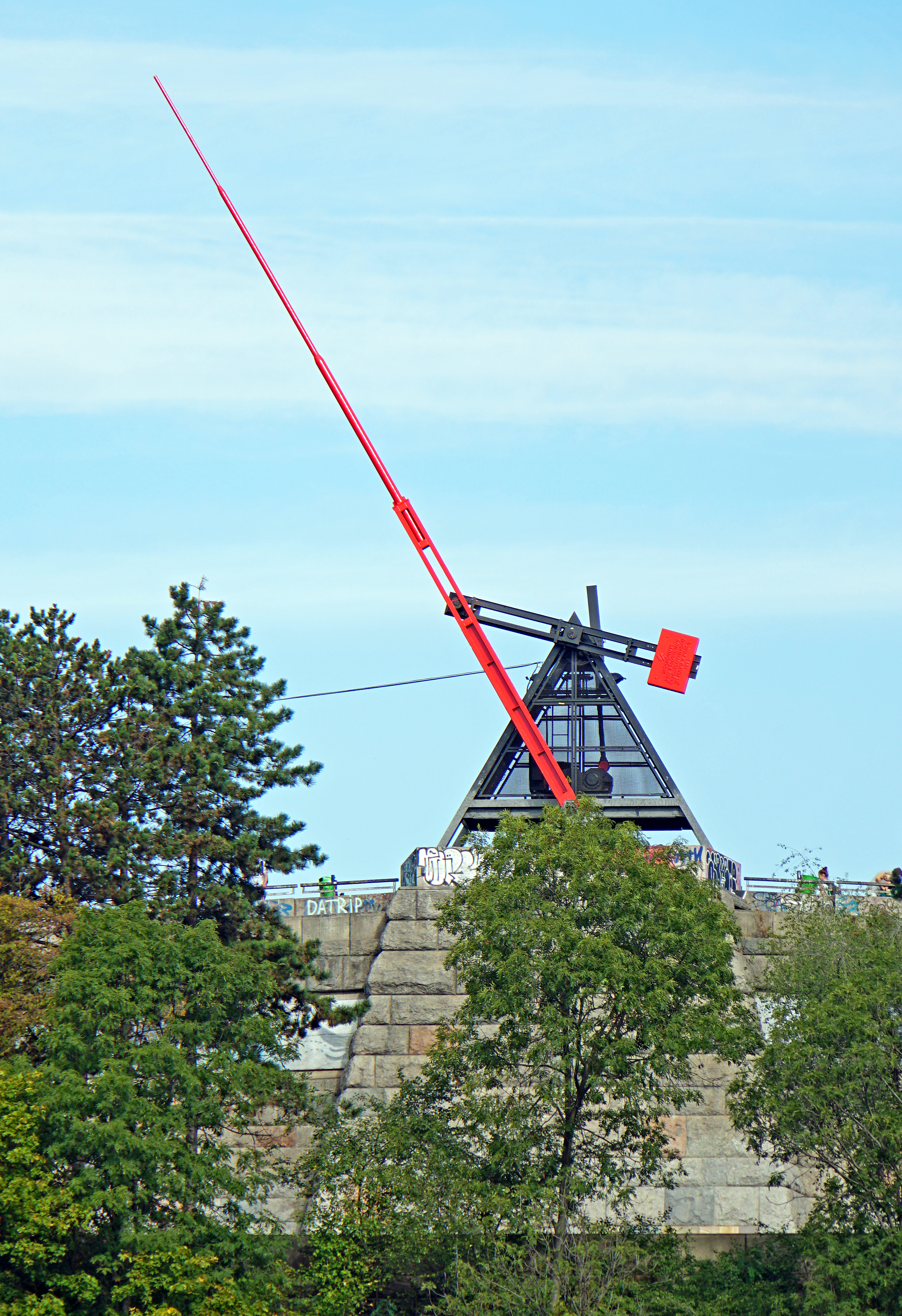 The Metronome is 23 meter (75ft) tall functional metronome in Letná Park. It was erected in 1991, on the spot left vacant by the destruction in 1962 of an enormous monument to former Soviet leader Joseph Stalin.